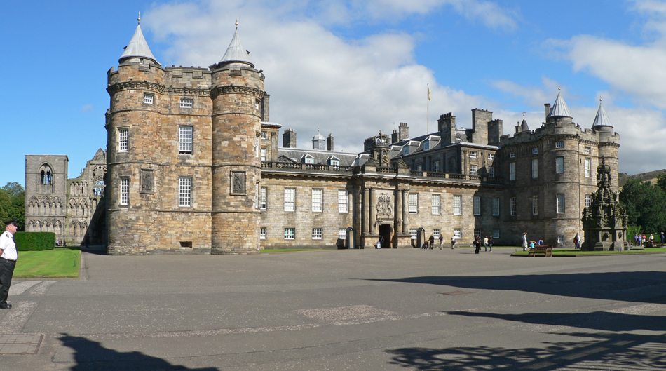 Royal Palace of Holyroodhouse, Edinburgh, Scotland.